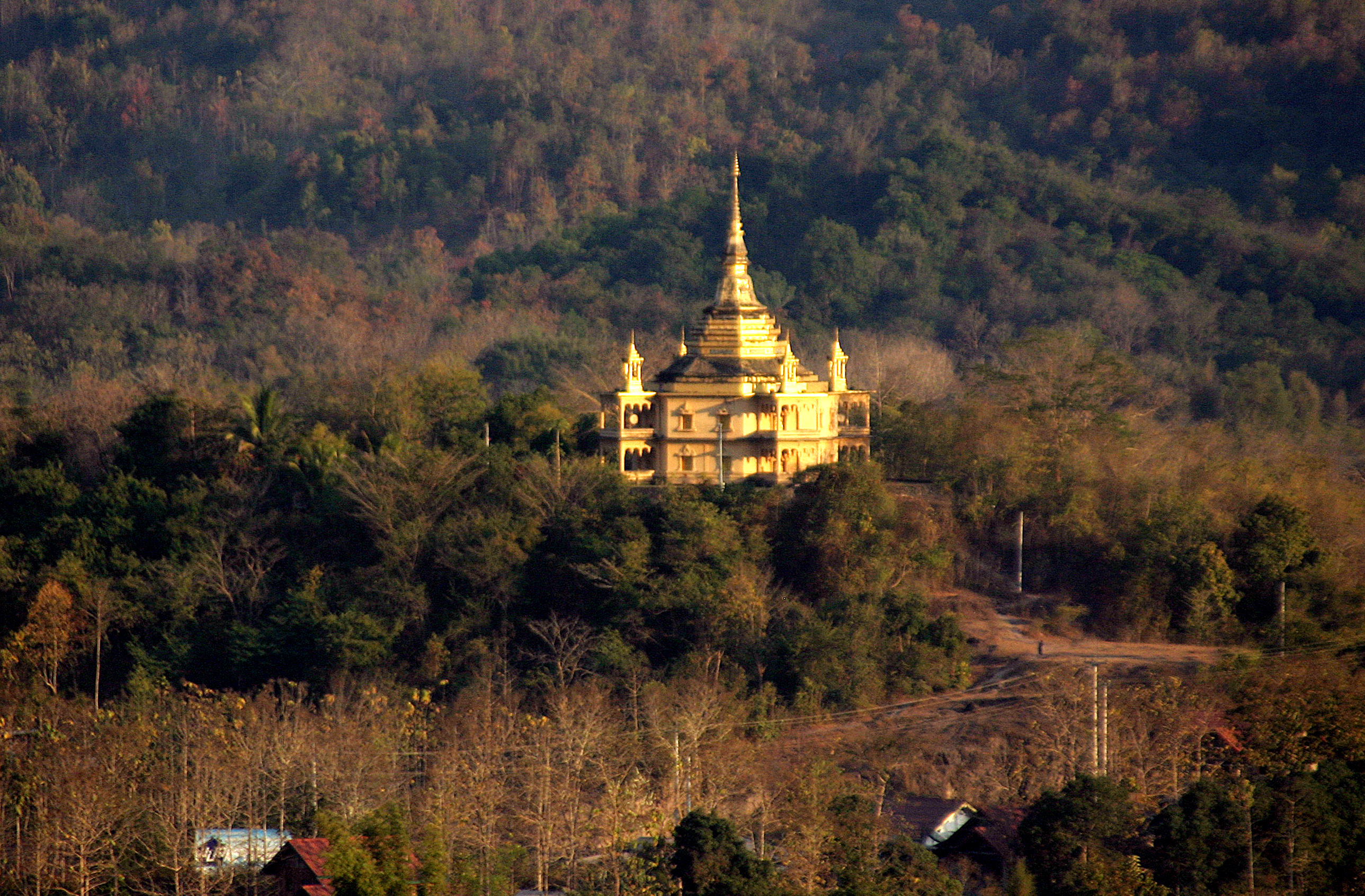 Phou Si mountain in Luang Prabang in Laos